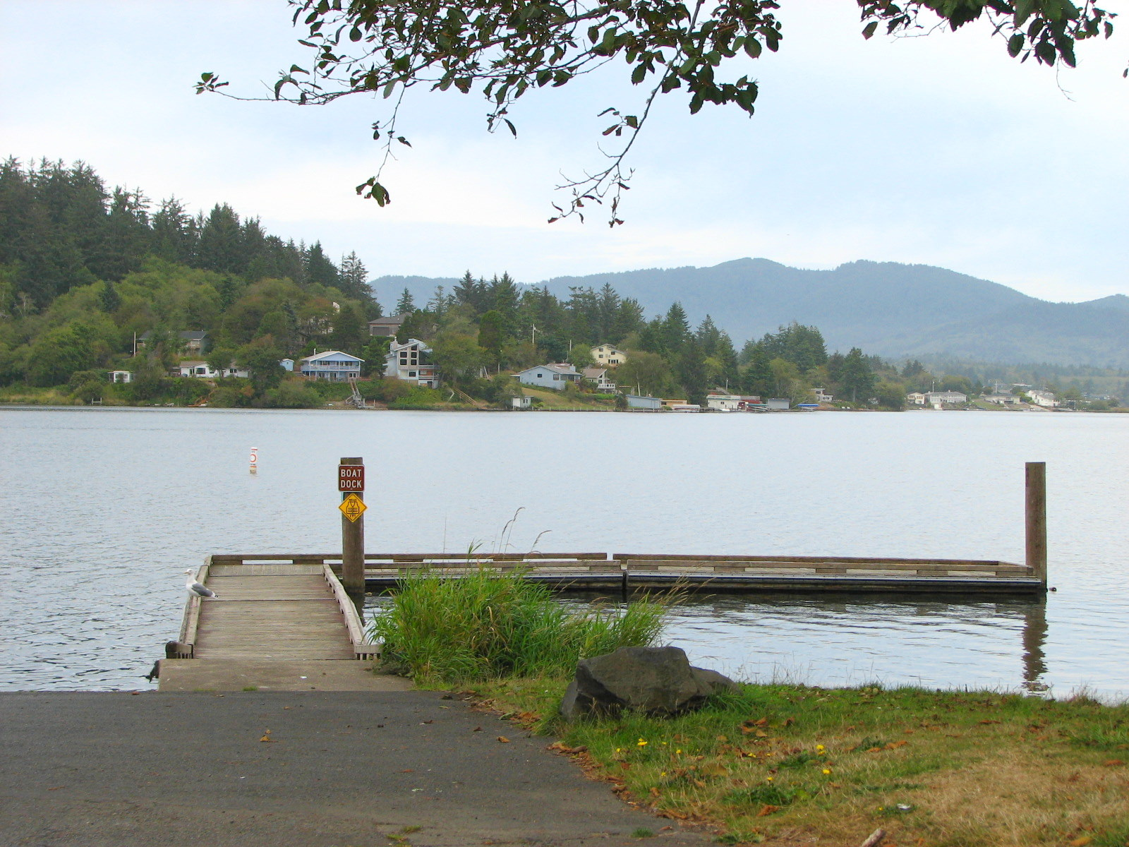 A dock at the East Unit of Devils Lake State Recreation Area, Lincoln City, Oregon, United States.